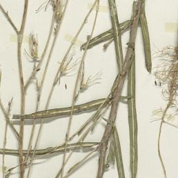 Photo of Lactuca Saligna L. in the Smithsonian Institution, collected in 1912 in Dearborn County, Indiana, U.S.A.